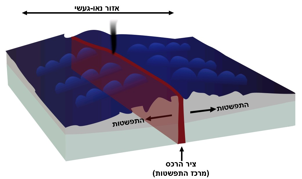 Mid Ocean Ridge